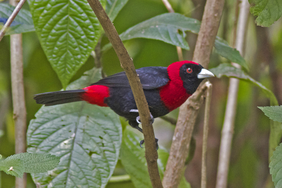 Crimson-collared Tanager photo taken at Rancho Naturalista, Costa Rica.